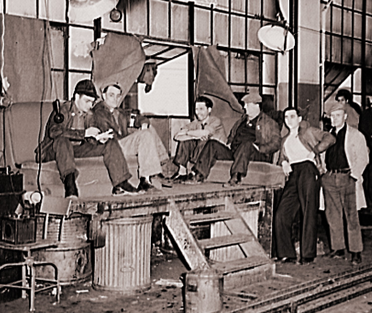 Strikers guarding window entrance to Fisher body plant number three. Flint, Michigan.